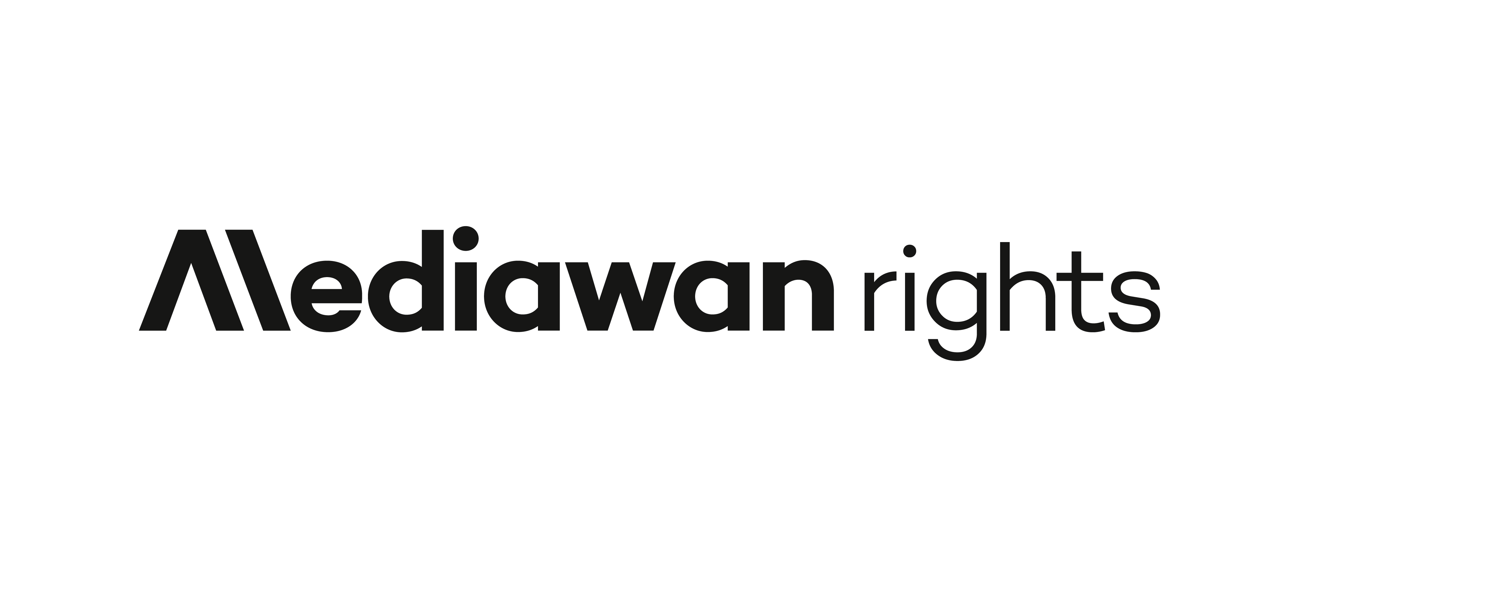 Mediawan rights logo